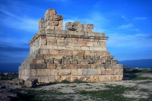 Soumaa El'Khroub, Tomb of Massinissa (Algeria) photo token by M.GASMI 2004. Source= Own photograph by uploader. Author= M.GASMI. Removed watermark read: © Moslim GASMI Long thought to be the tomb of Massinissa, it is now considered to be the tomb of his son, Micipsa. See Christine Hamdoune, "Massinissa, roi african et allié de Rome" No. 345 (2009) L'Histoire 82-87 at p. 87.